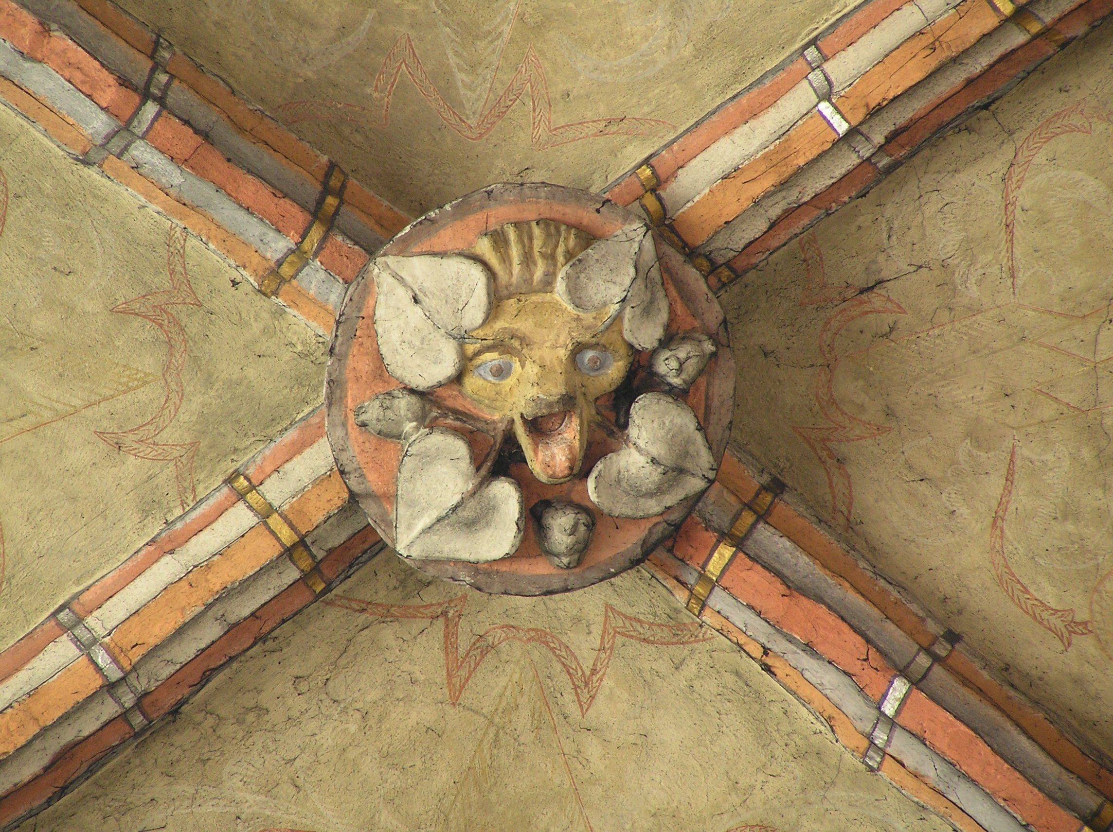 Chełmno, church of Blessed Virgin Mary, keystone in the northern aisle